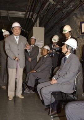 Masatoshi Koshiba, Emeritus Professor of the University of Tokyo, explained to Jun'ichirō Koizumi, Prime Minister, the Super-Kamiokande at Kamioka Observatory, Institute for Cosmic Ray Research, University of Tokyo in Kamioka Town, Yoshiki District, Gifu Prefecture on August 27, 2003.